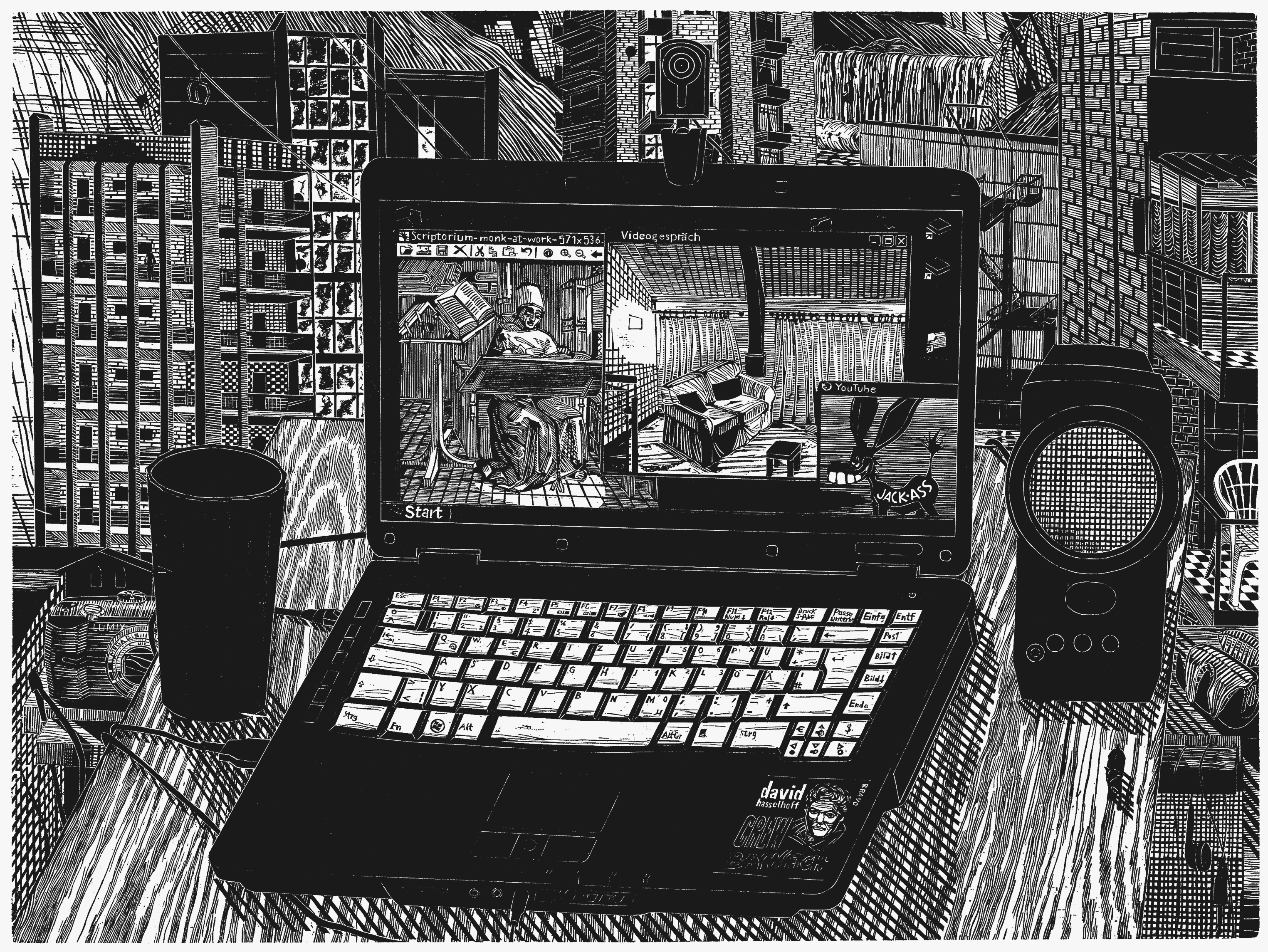 Woodcut print by Gabriela Jolowicz. Title: Laptop, year: 2010, size of print: 45 x 60 cm